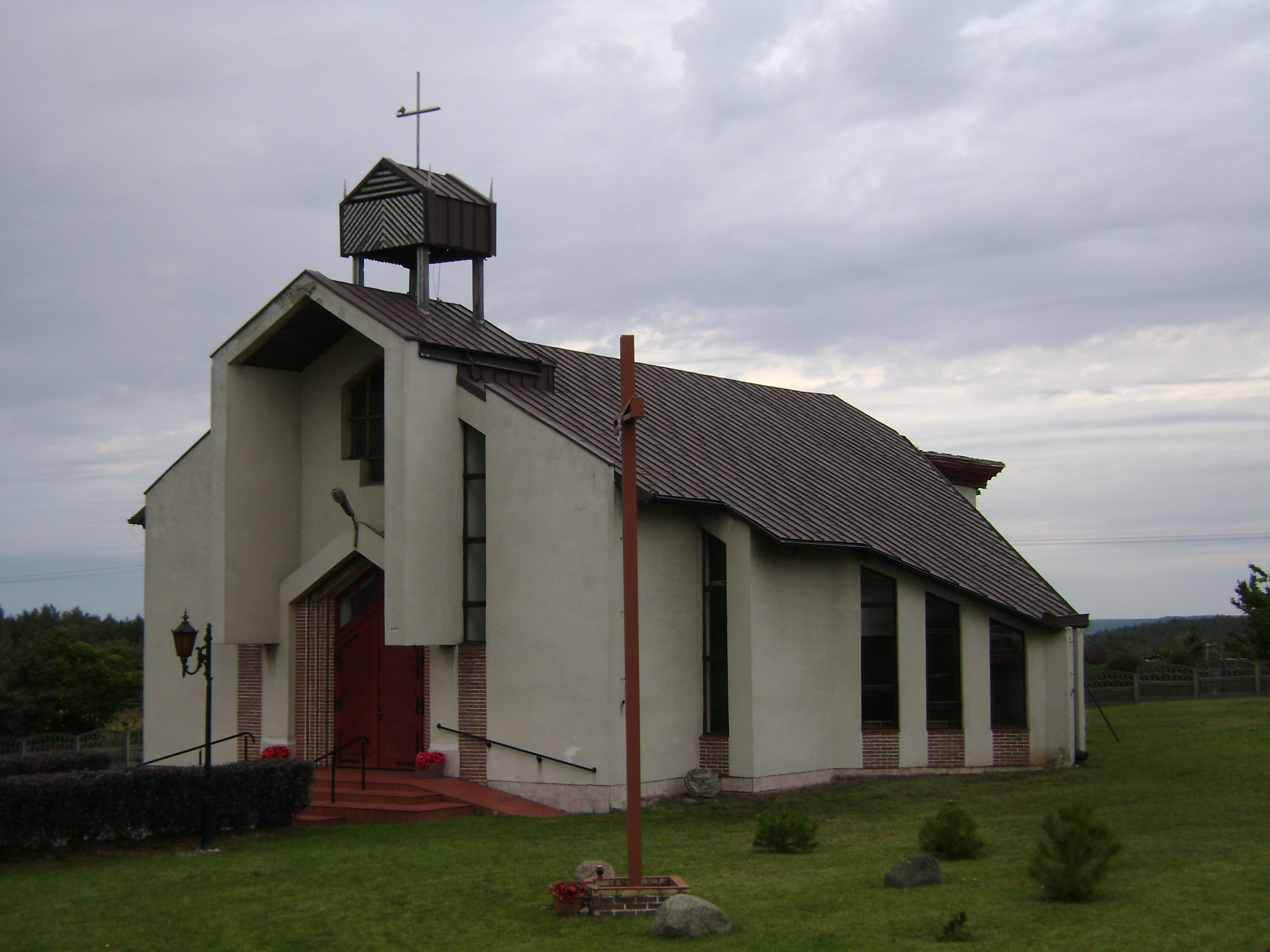 Wielkie Lniska, gmina Grudziądz, Poland, church from 1994